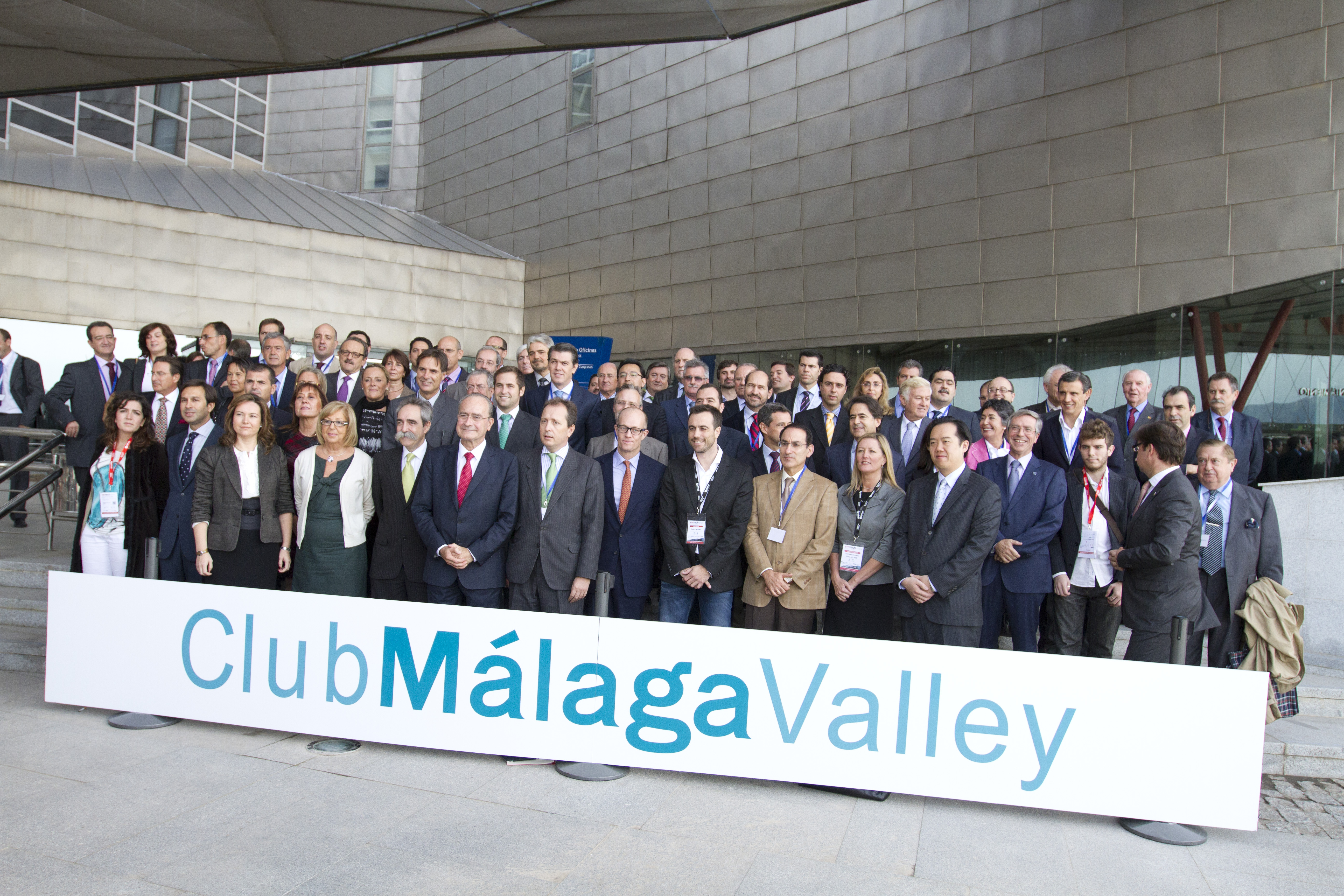 Pedro Moneo, Jason Pontin, Ryan Chin, Kathleen Kennedy and members of Club Málaga Valley---- emtech Spain October 26-27, 2011, Málaga.